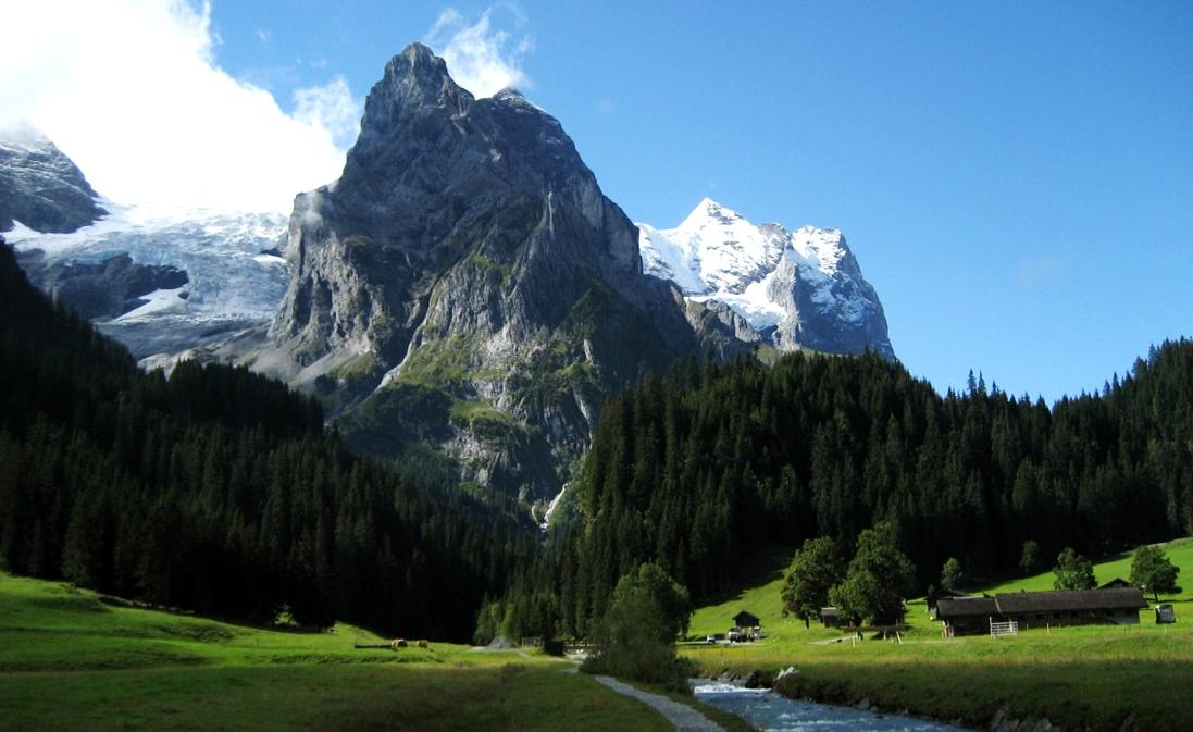 Wellenhorn, Bernese Alps